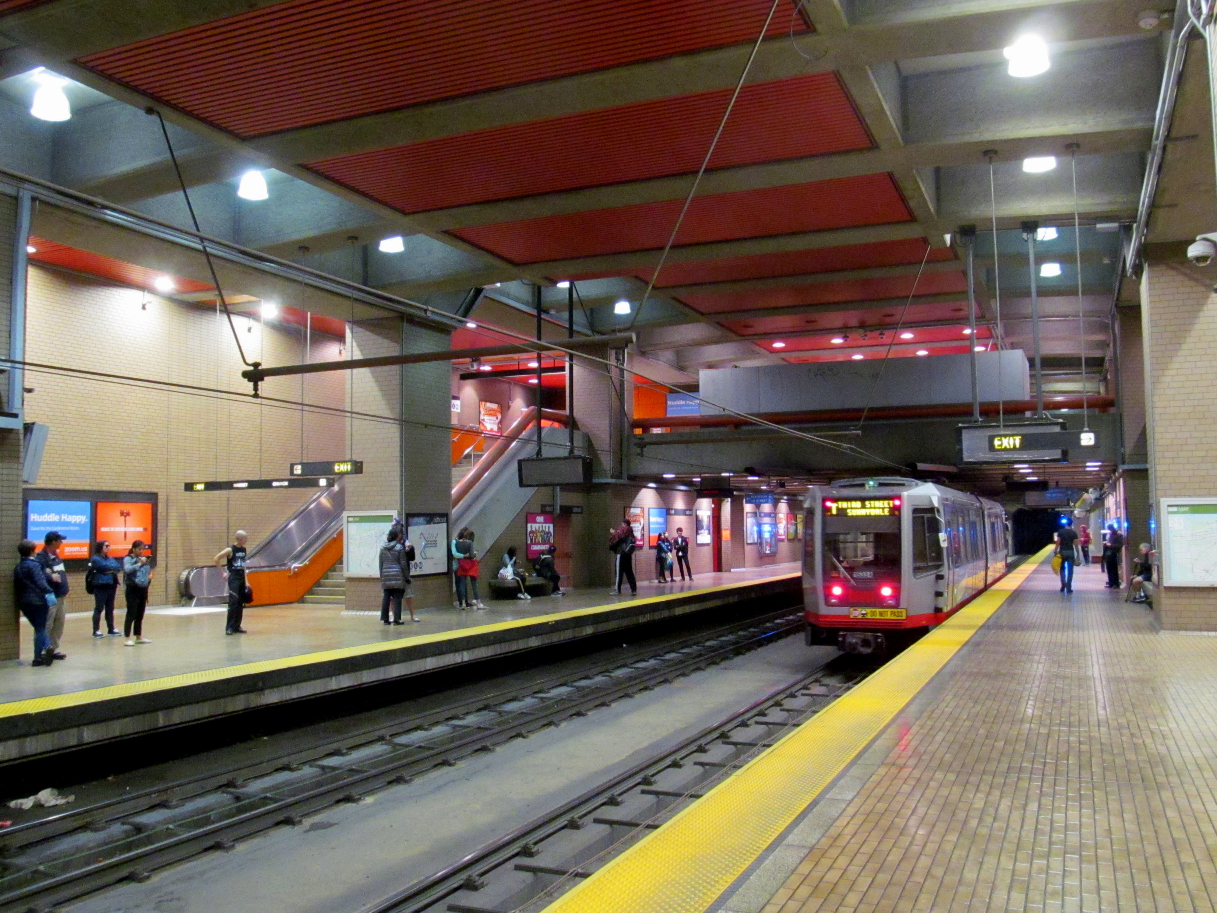 Inbound T Third Street train at Church station in September 2017